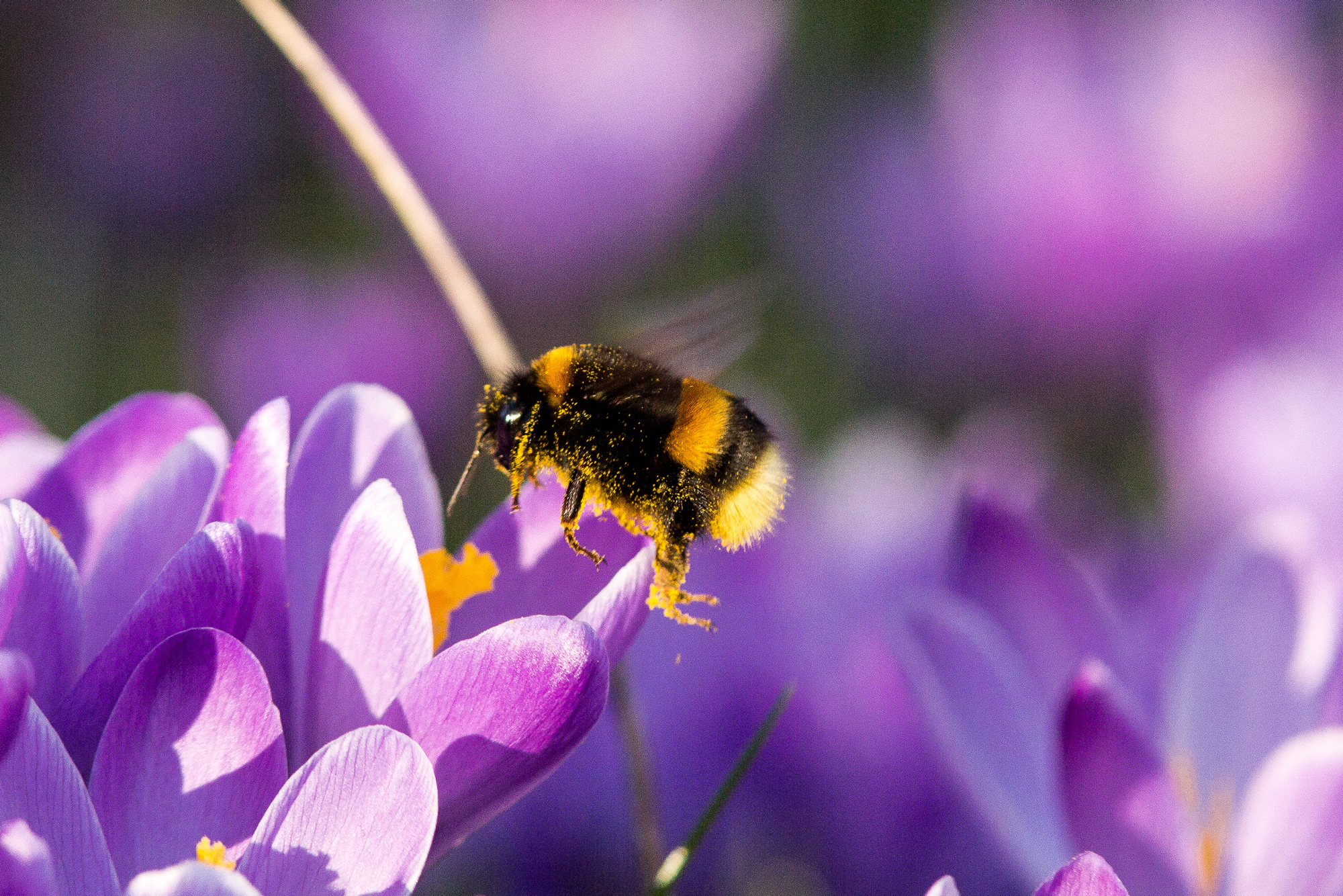 A bumblebee in front of a crocus.